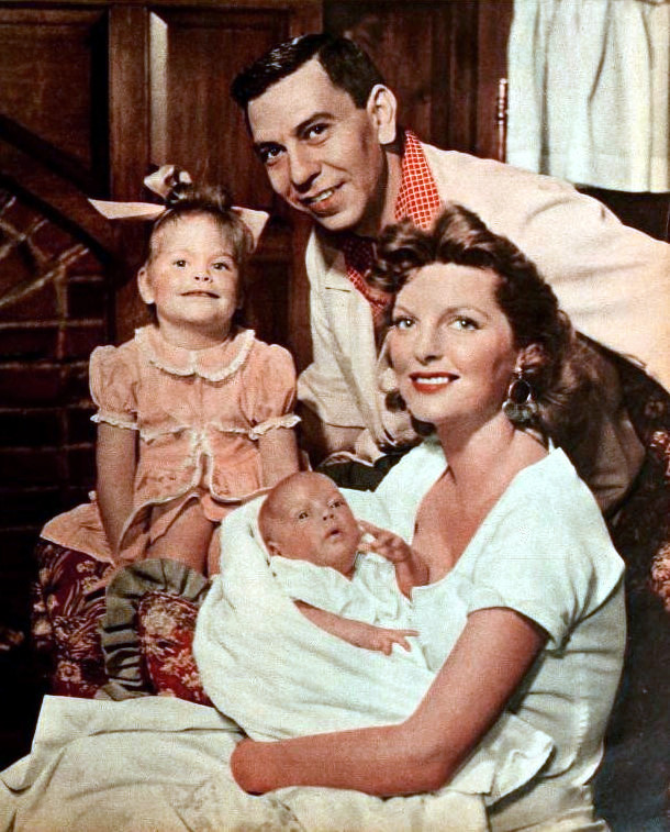 Jack Webb and Julie London (Julie Web) with Stacey and Lisa, 1953